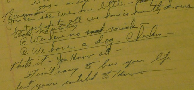 Excerpts from the notes used in delivering the Fund speech (or Checkers speech) on file with the Richard Nixon Presidential Library and Museum, Yorba Linda CA, a division of the National Archives. The speech is in the public domain, so are the notes. See 1952 Campaign, box 1.